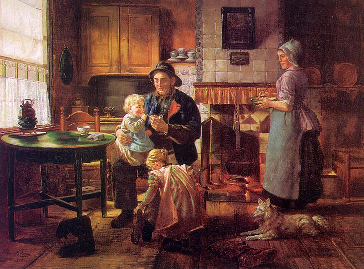 Returning Home, oil on canvas